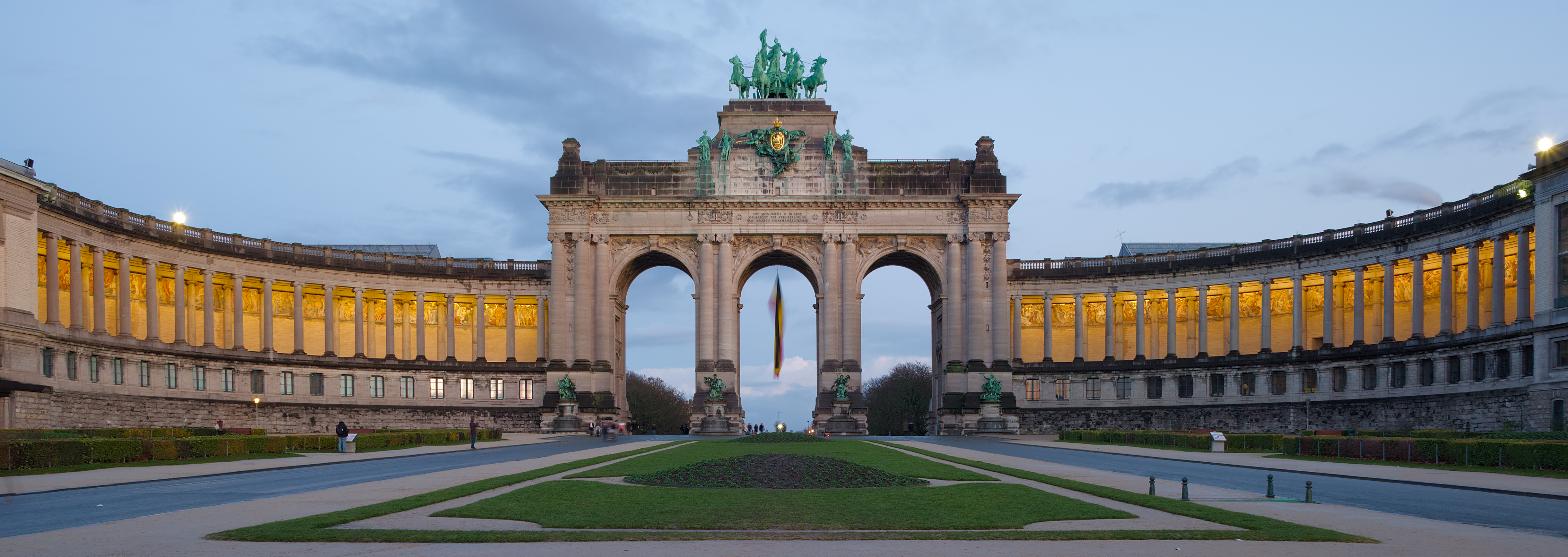 Arcade du Cinquantenaire during civil twilight (Brussels, Belgium)